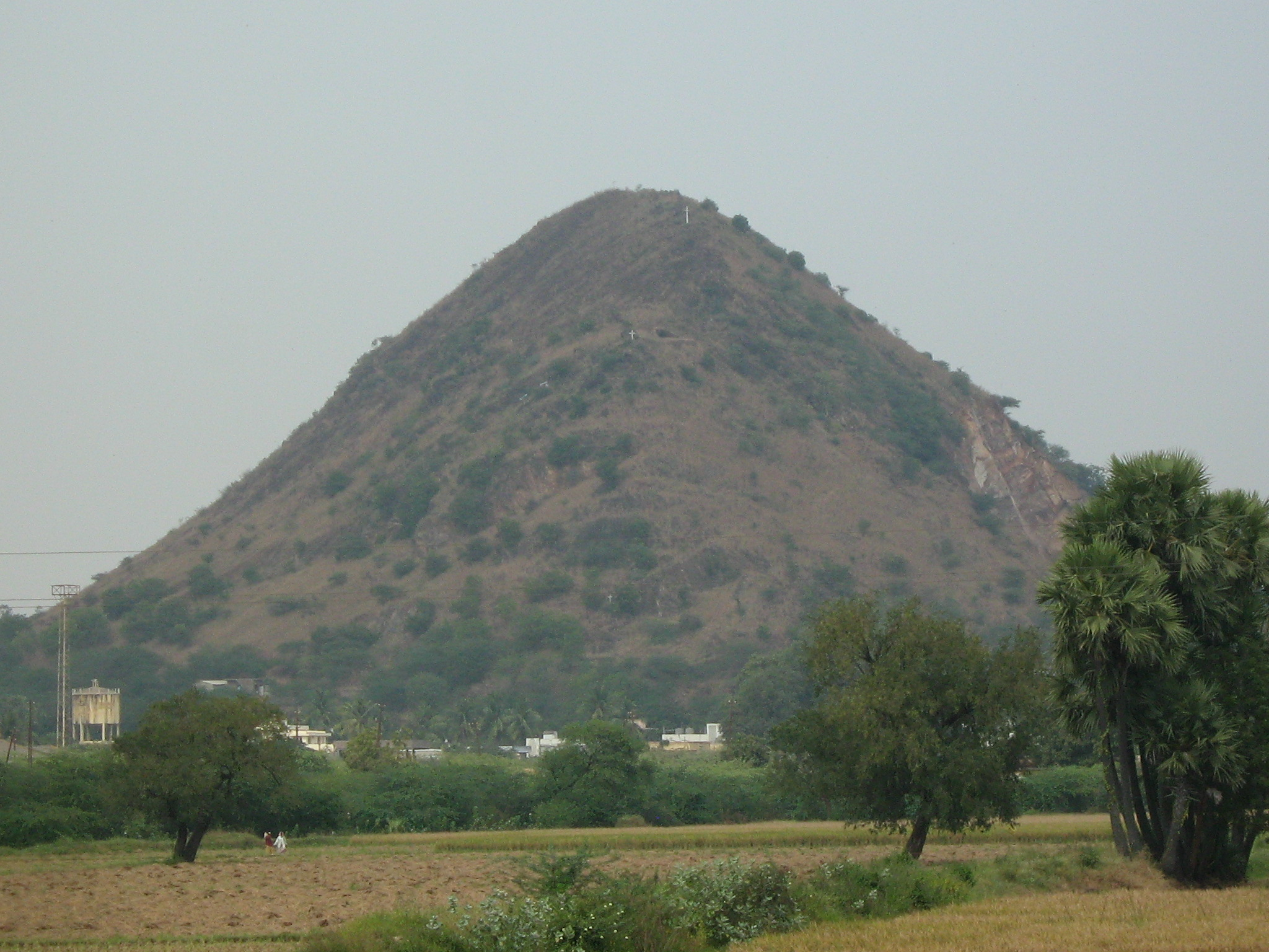 Pakhala Hills Near Khammam, Andhra Pradesh, India